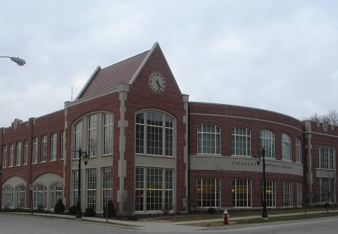 This is the Charles C. Myers Library at the University of Dubuque. I took this photo in March of 2006. Jesster79 23:57, 11 March 2006 (UTC)